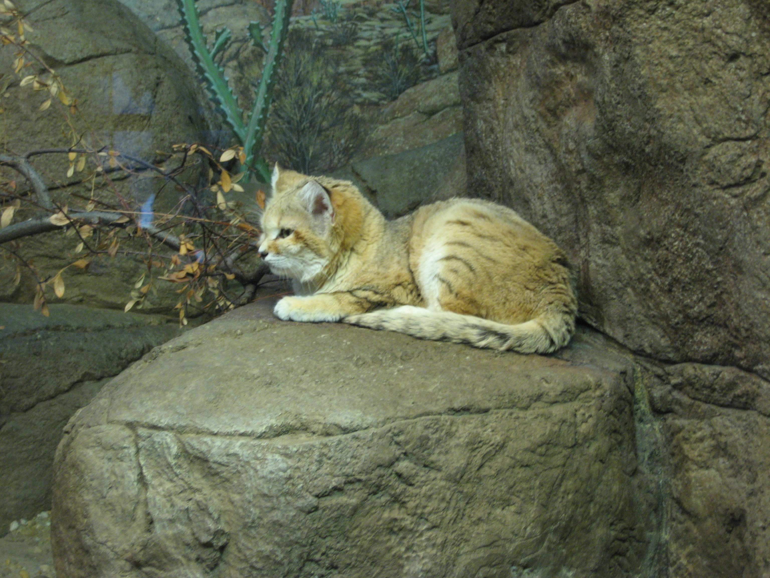 A sand cat, at the Cincinnati Zoo.